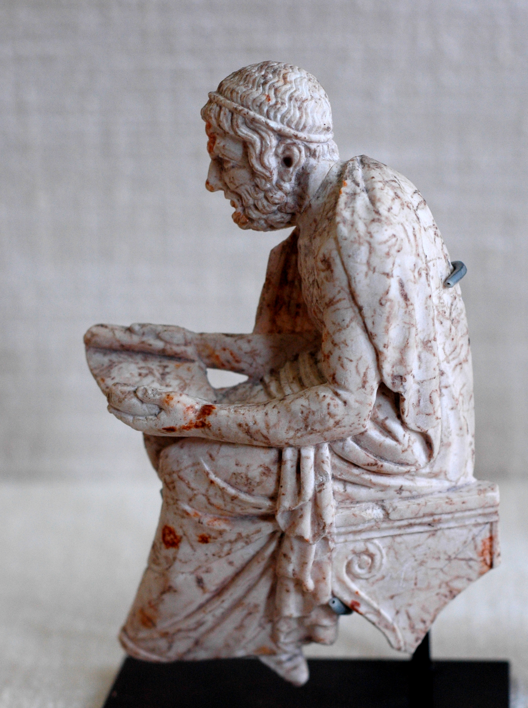 Seated man (tentatively identified as Sophocles by Chabouillet) wearing a pallium and reading a volumen. Appliqué figurine, Hellenistic period.